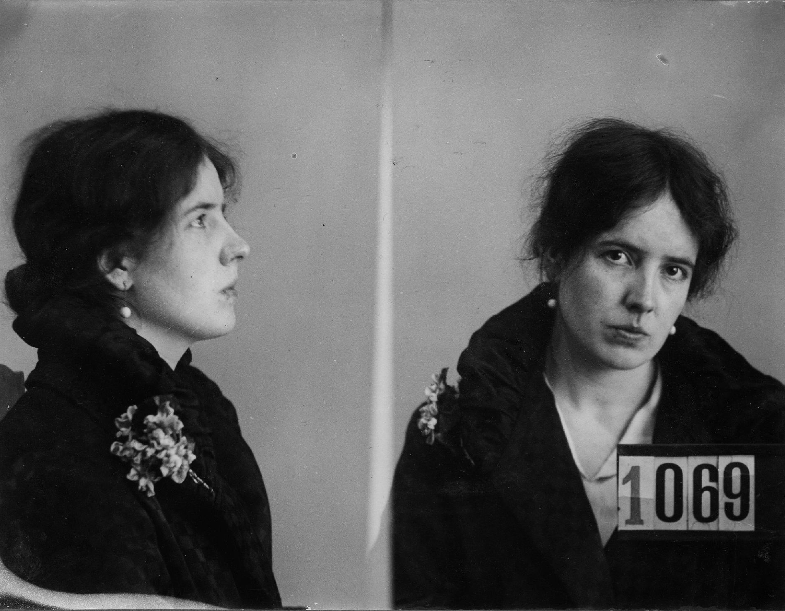 Photograph of the Finnish writer and murderer Margit Törnudd née Niininen (1905–1993) after she was arrested in Turku, suspected for a homicide.